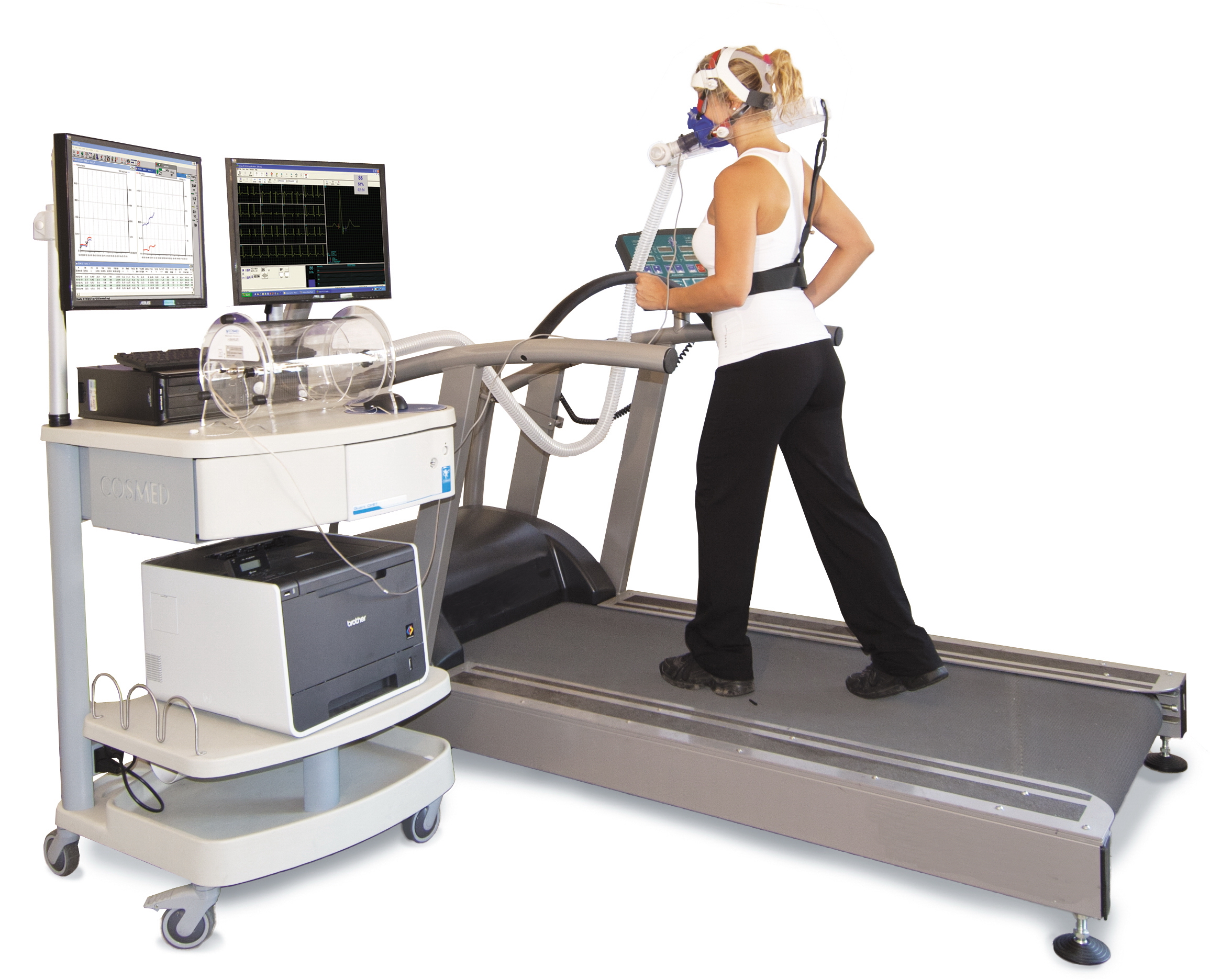 Metabolic cart from COSMED (